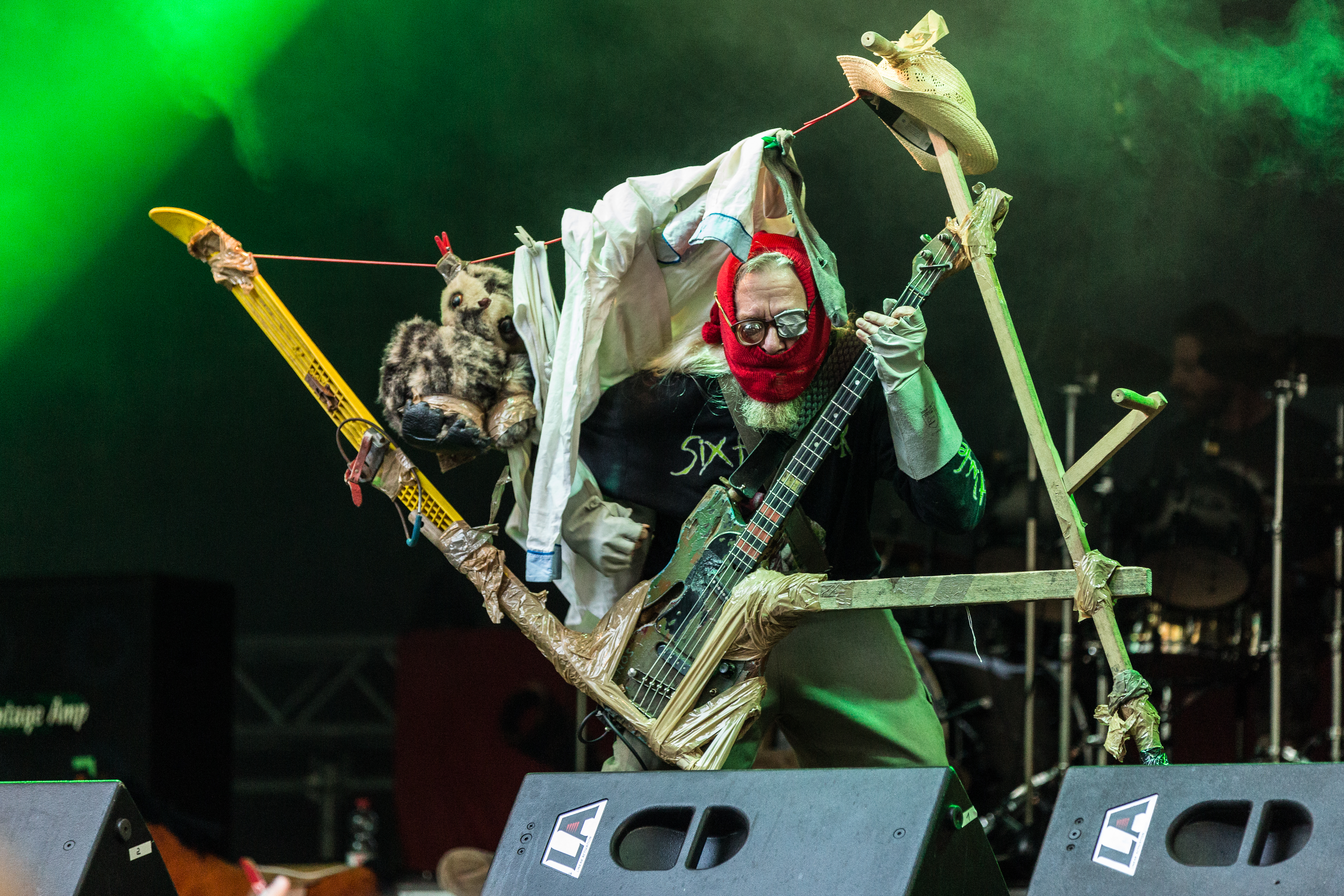 The German death metal band Manos at the Rock unter den Eichen Open Air 2017 in Bertingen/Germany.